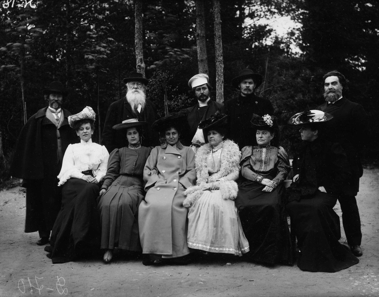 Repin, Stasov, Andreev, Gorky, Tarhanov with ladies